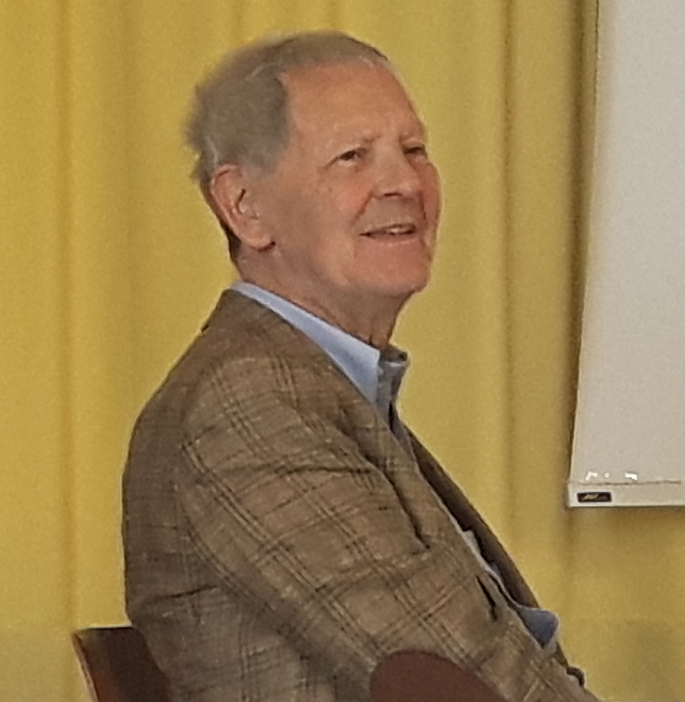 Walter R. Stahel during a conference in May 2019 in Geneva